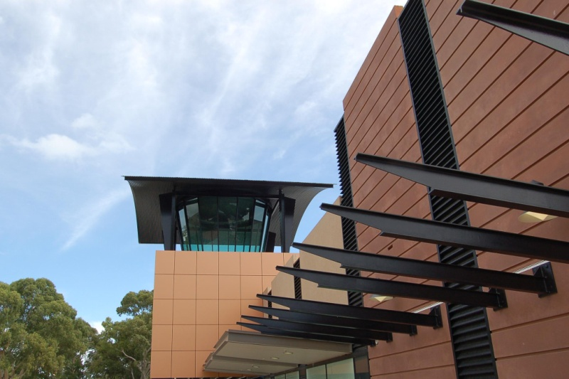 Mitcham Square Shopping Centre exterior.